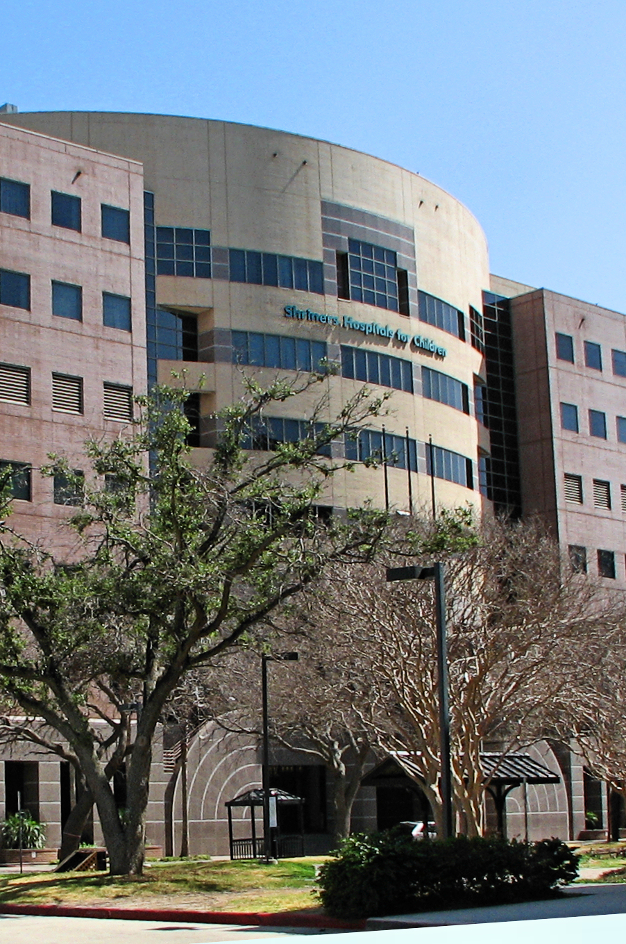 Shriner's Hospital for Children, Galveston Burns Hospital in Galveston, Texas.